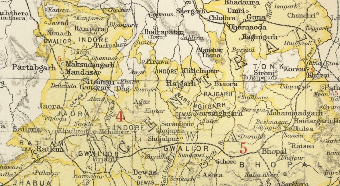 1909 Imperial Gazetteer of India Central India map section